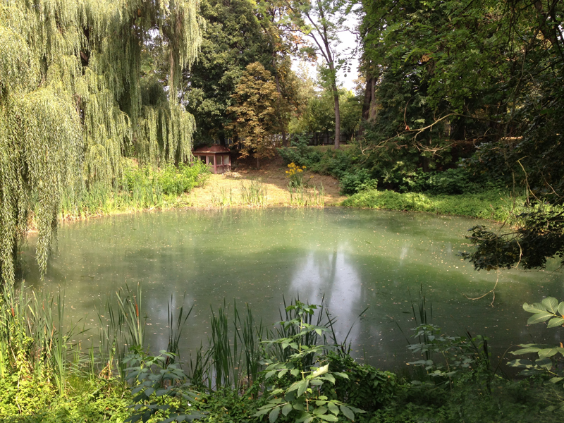 Zvolen Borova hora